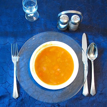 Bowl of red lentil soup.